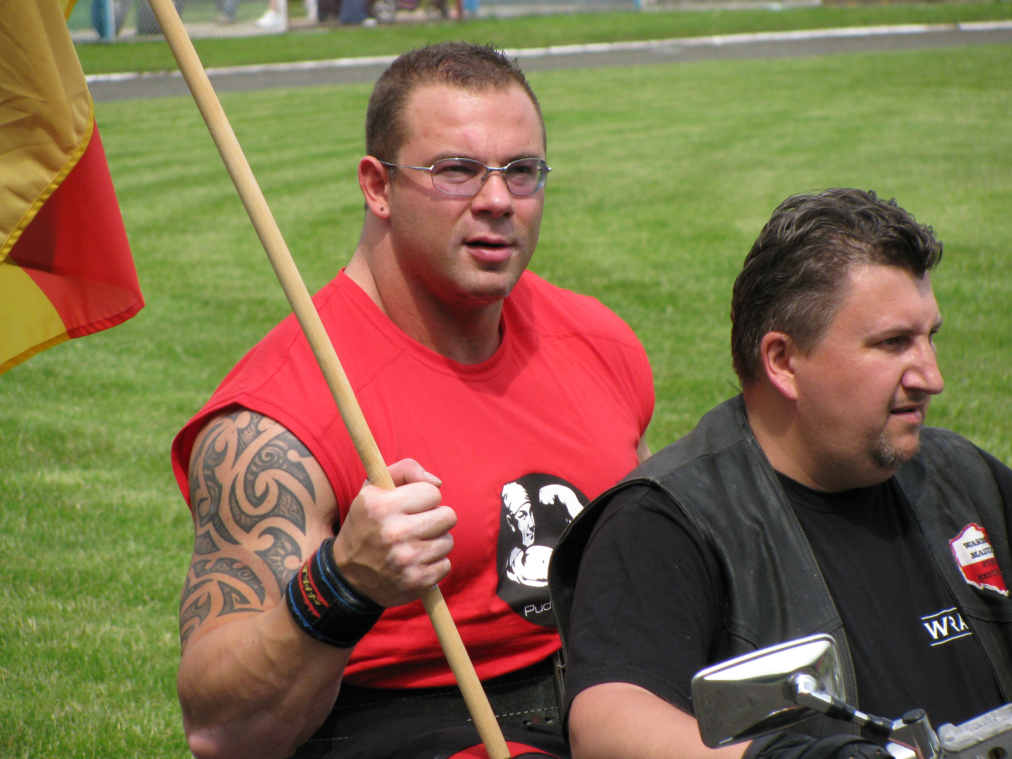 Florian Trimpl - a strength athlete from Germany during Europe's Strongest Man 2009 competition, Poland